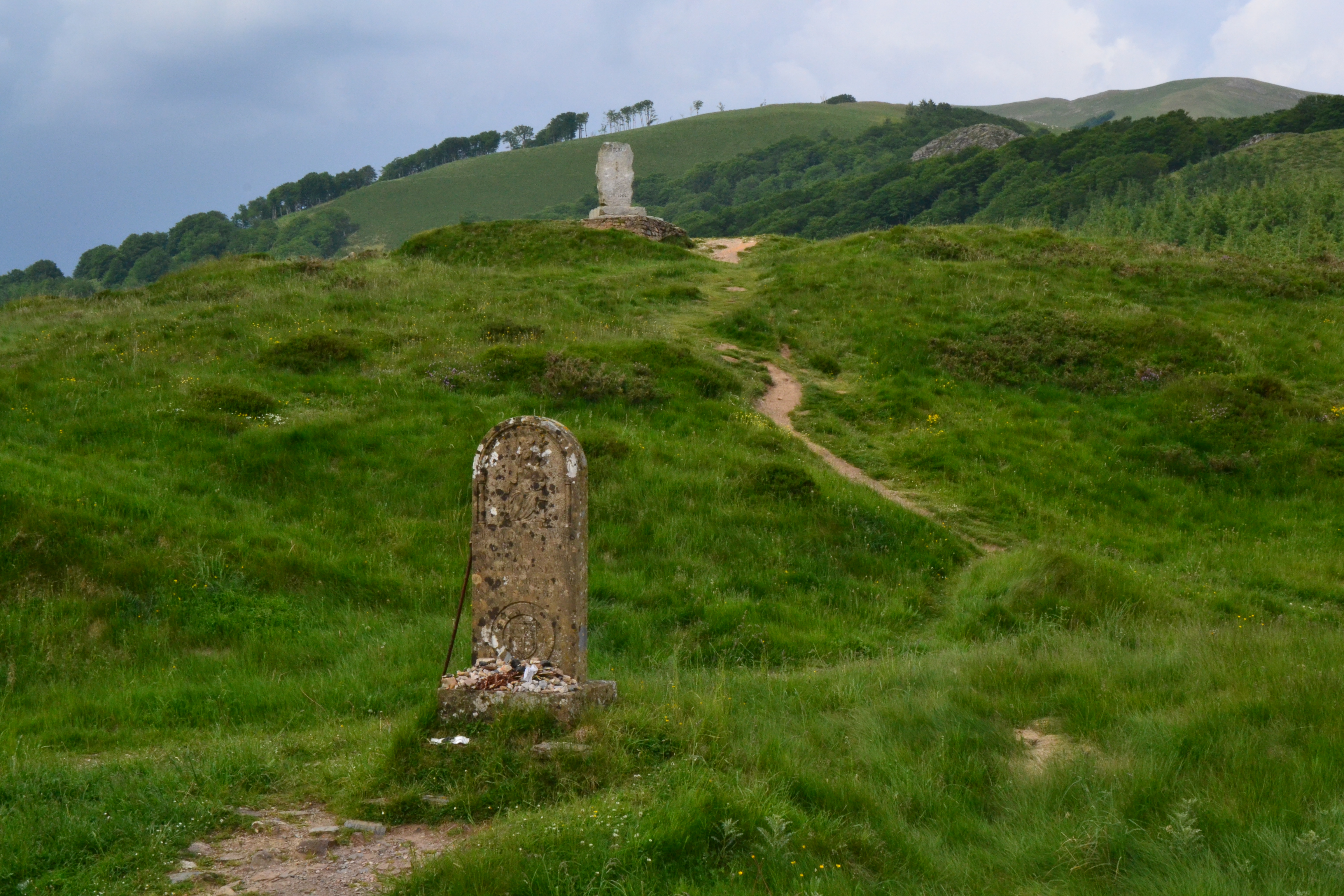 Ibañeta mountain pass. Orreaga-Roncesvalles, Navarre. Basque Country.